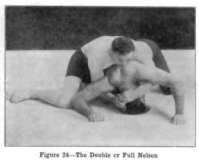 Double Nelson as illustrated the scan of Figure 24 in Lessons in Wrestling & Physical Culture.